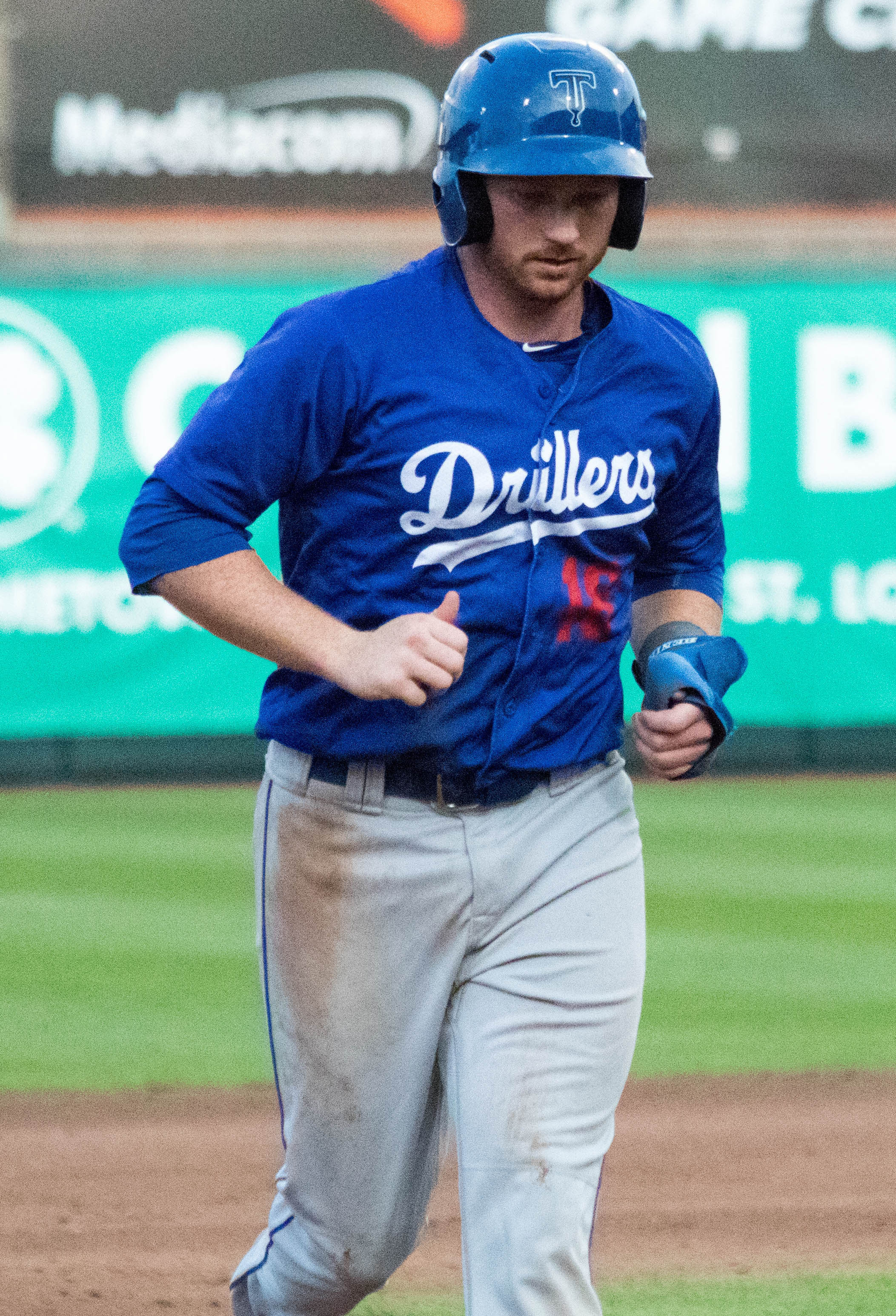 Kyle Garlick of the Tulsa Drillers rounding the bases after a homerun